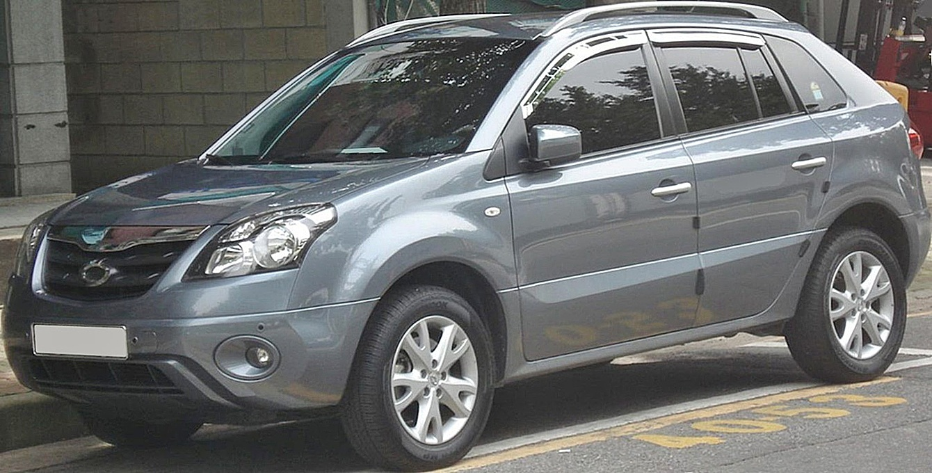 Renault Samsung QM5